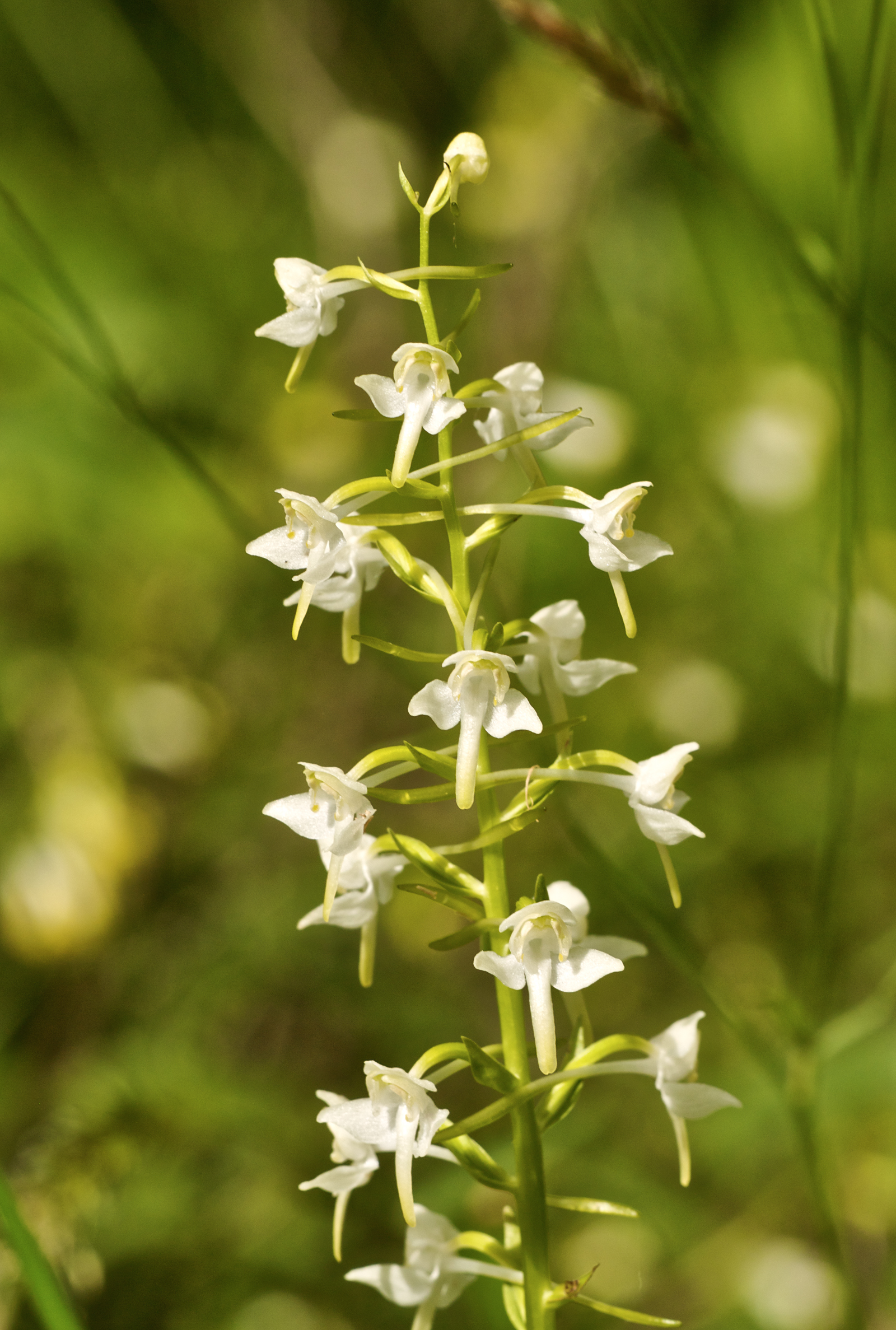 Greater Butterfly-orchid (Platanthera chlorantha), Småland, Sweden